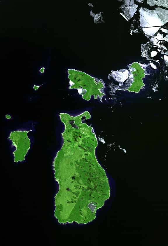 The raw satellite imagery shown in these images was obtain from NASA and/or the US Geological Survey. Post-processing and production by